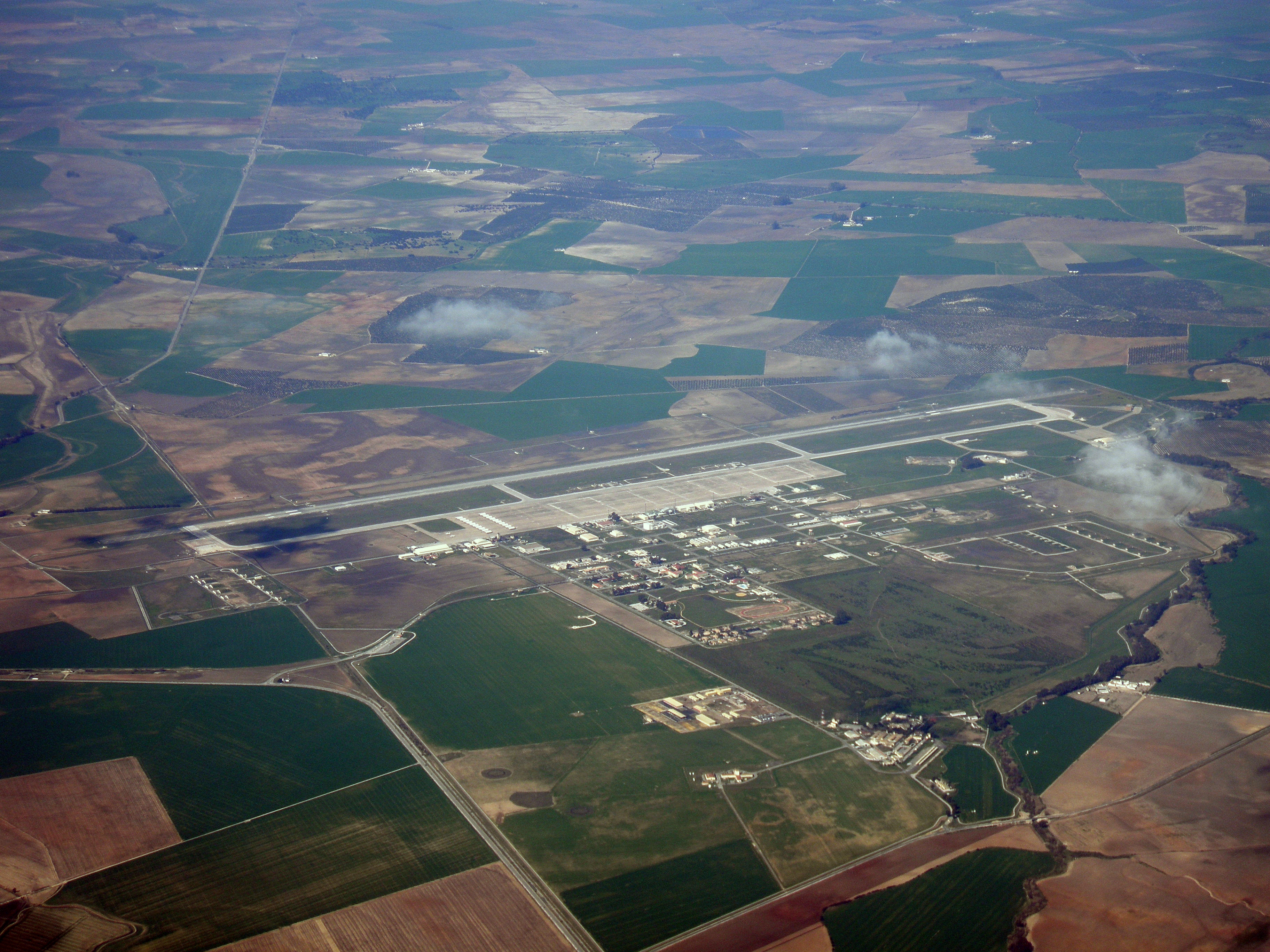 Morón Air Base, sited in Arahal, Seville.